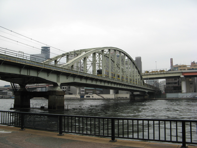 Sumida River bridge (Soubu-line)